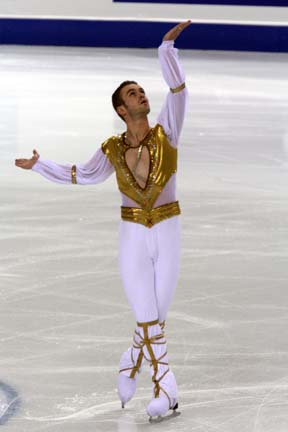 Kevin VAN DER PERREN at the Grand Prix Final 2007-2008